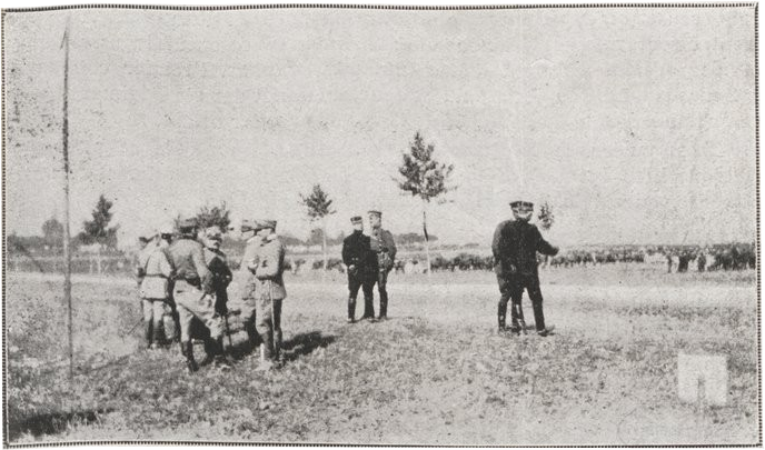 Prise d'armes au cours de laquelle le 9e Régiment de Zouaves reçoit son drapeau des mains de Monsieur Poincarré, Président de la République. Photo prise près de Saint-Nicolas-Du-Port.